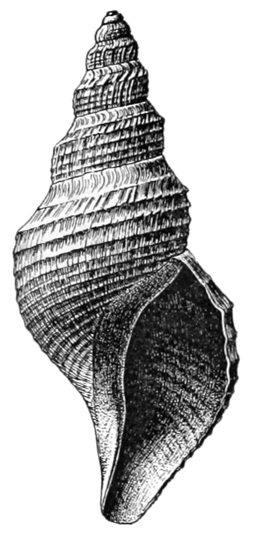 Drawing of apertural view of the shell of Phymorhynchus castaneus(Dall, 1896). The height of the shell is 53 mm.